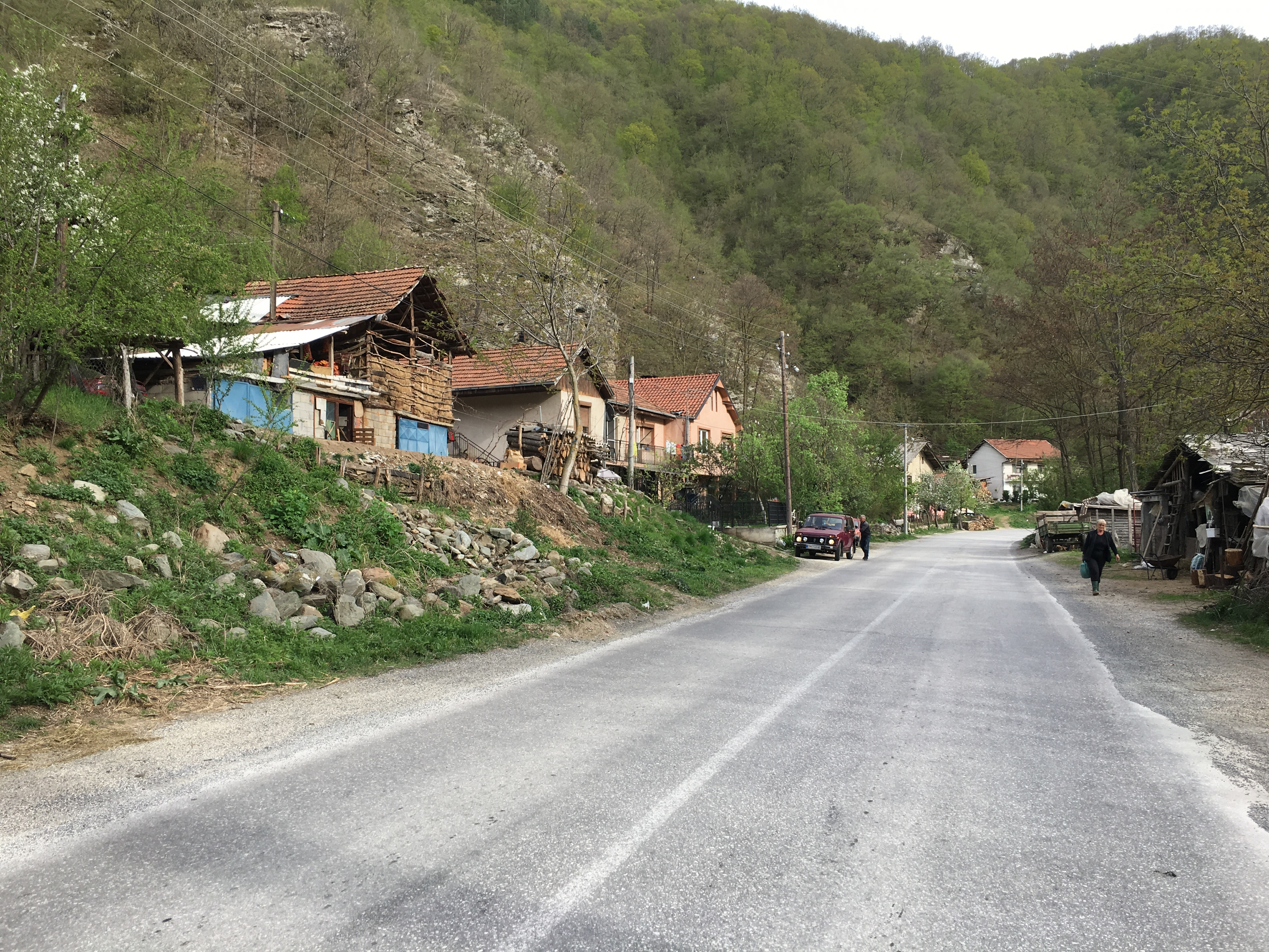 Pašina Vodenica mahala of the village of Krklja